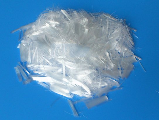 Appearance: white monofilament or net-like shape Density (g/cm3): 0.91 ±0.01 Acid & Alkali resistance: Strong Tensile Strength (Mpa): 560 Min Elastic Modulus (Mpa): 3500 Min Crack Elongation (%): 10 Min Electrical Conduction: Low Hot Conduction: Low Water Absorbency: No Melting Point (Deg. C): 160-180 Specification of polypropylene fiber: Material: 100% polypropylene Equivalent diameter: 15-40μm Length: 3-50mm or tailored cut Cross-section shape: round, ellipse or rectangular